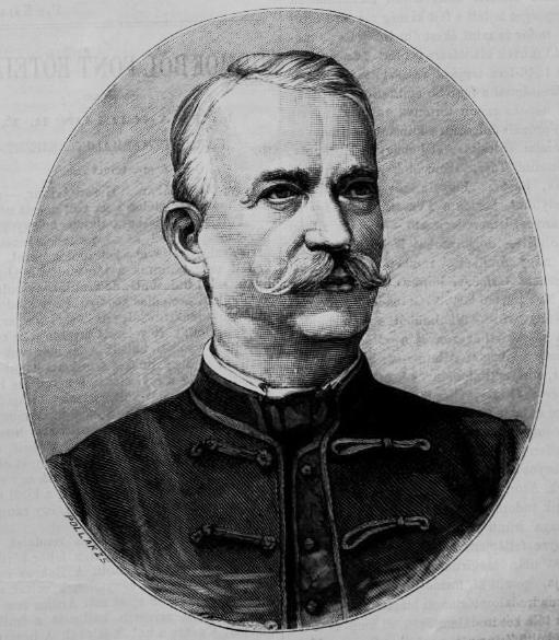 Portrait of the educator István Szilágyi